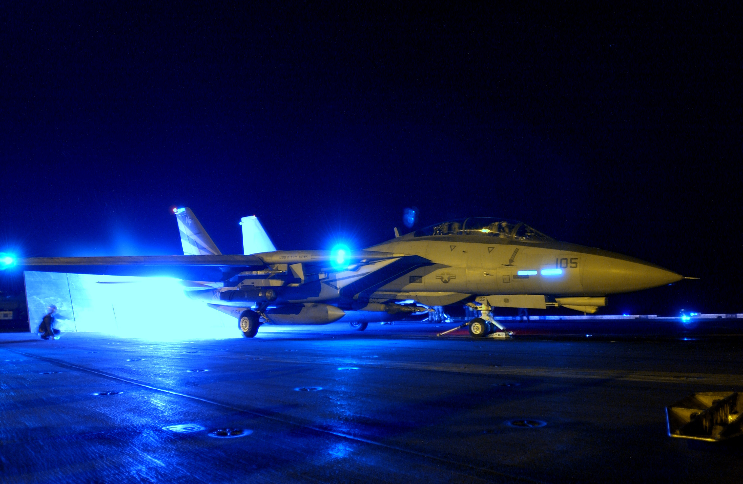 030330-N-1810F-014 The Arabian Gulf -- An F-14A Tomcat ignites its afterburners just prior to launching off the flight deck aboard USS Kitty Hawk (CV 63). Kitty Hawk and her embarked Carrier Air Wing Five (CVW-5) are conducting combat missions in support of Operation Iraqi Freedom. Operation Iraqi Freedom is the multi-national coalition effort to liberate the Iraqi people, eliminate Iraq's alleged weapons of mass destruction, and end the regime of Saddam Hussein.